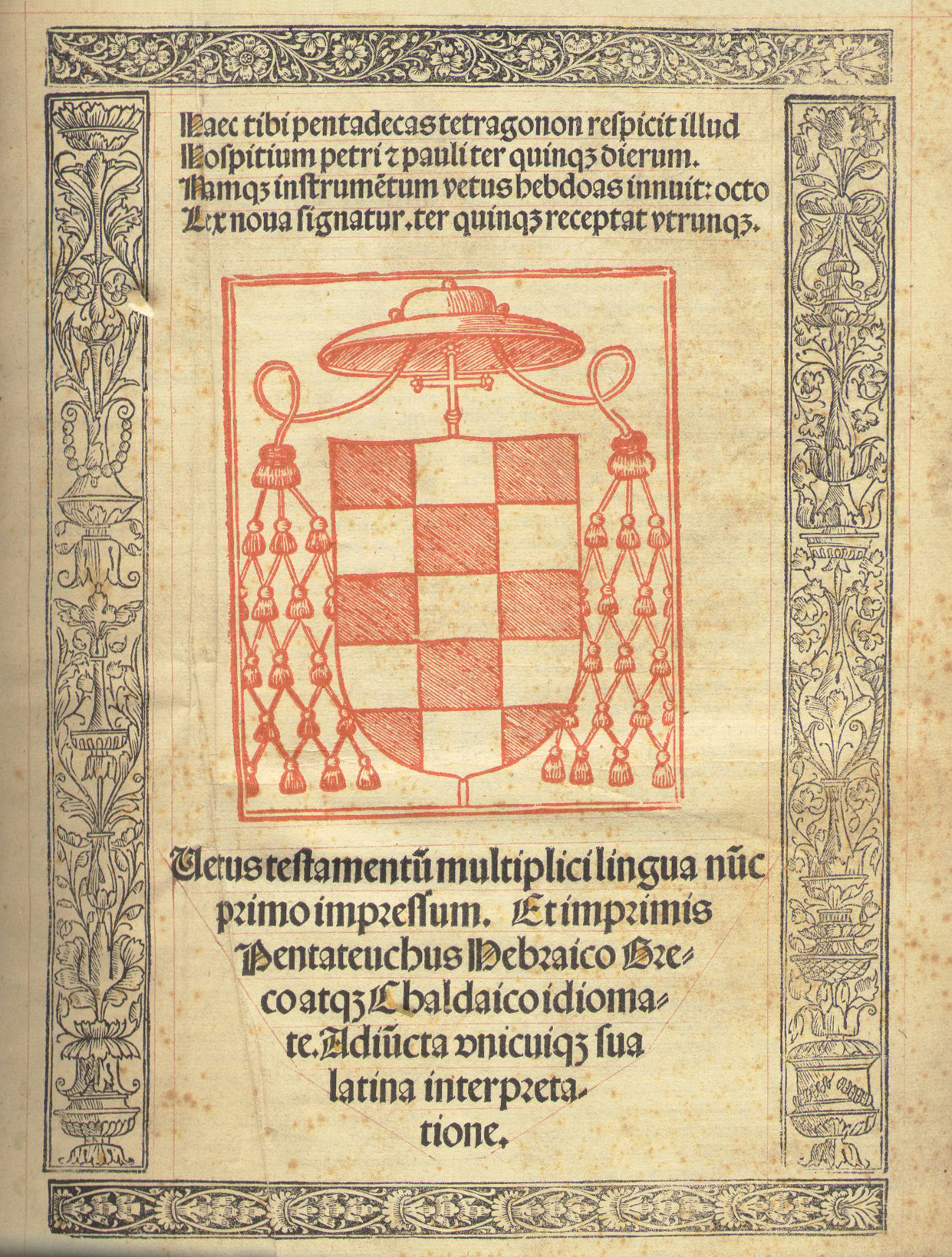 The main page of Cardinal Cisneros' Complutensian Polyglot Bible, XVI century.